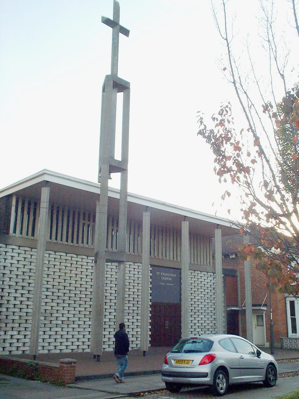 Italian Roman Catholic church of St Francesca Cabrini, 10 Woburn Road, Bedford, Bedfordshire, England